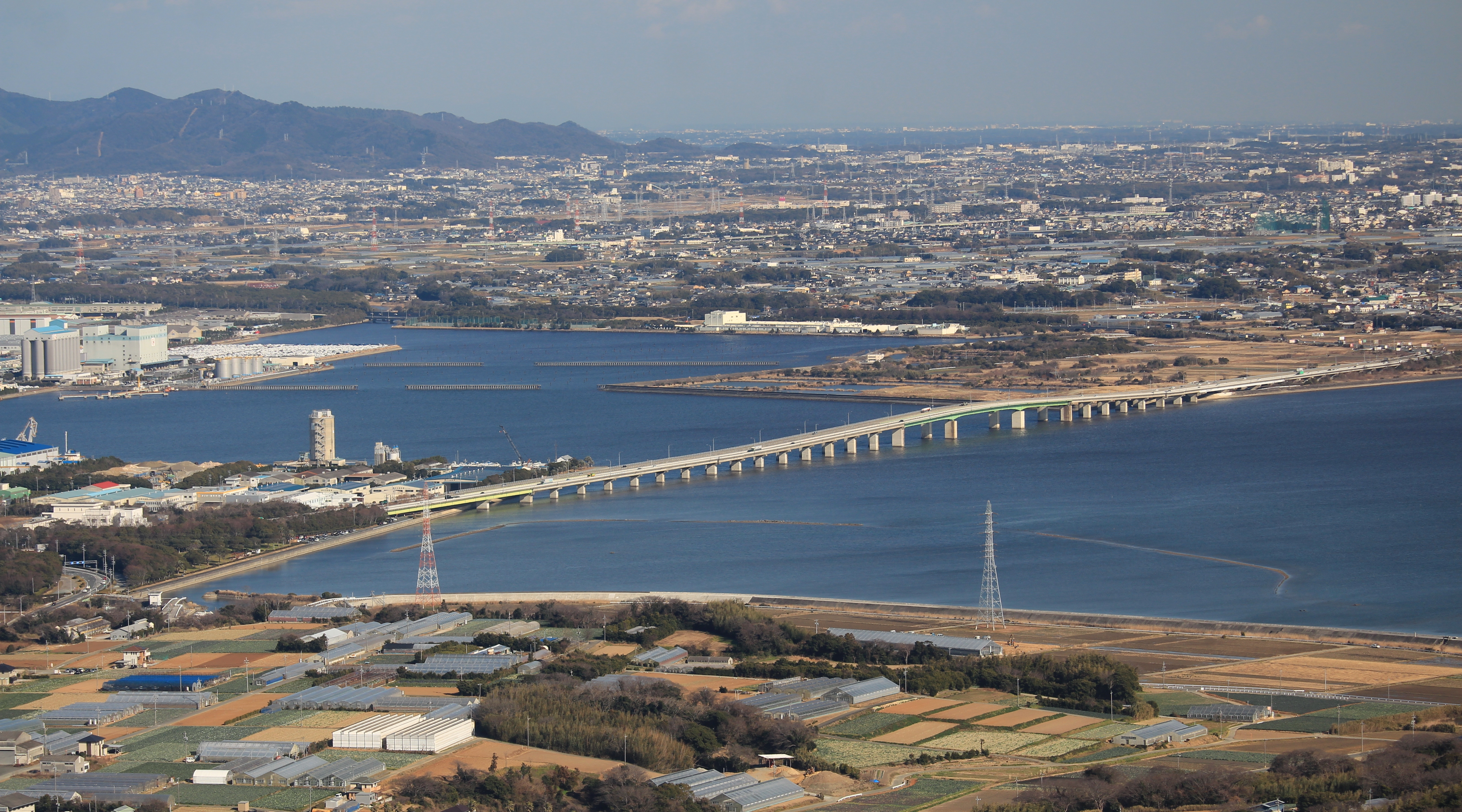 Mikawako Bridge of Aichi Prefectural Road Route 2 seen from Mount Zao in Aichi prefecture, Japan.